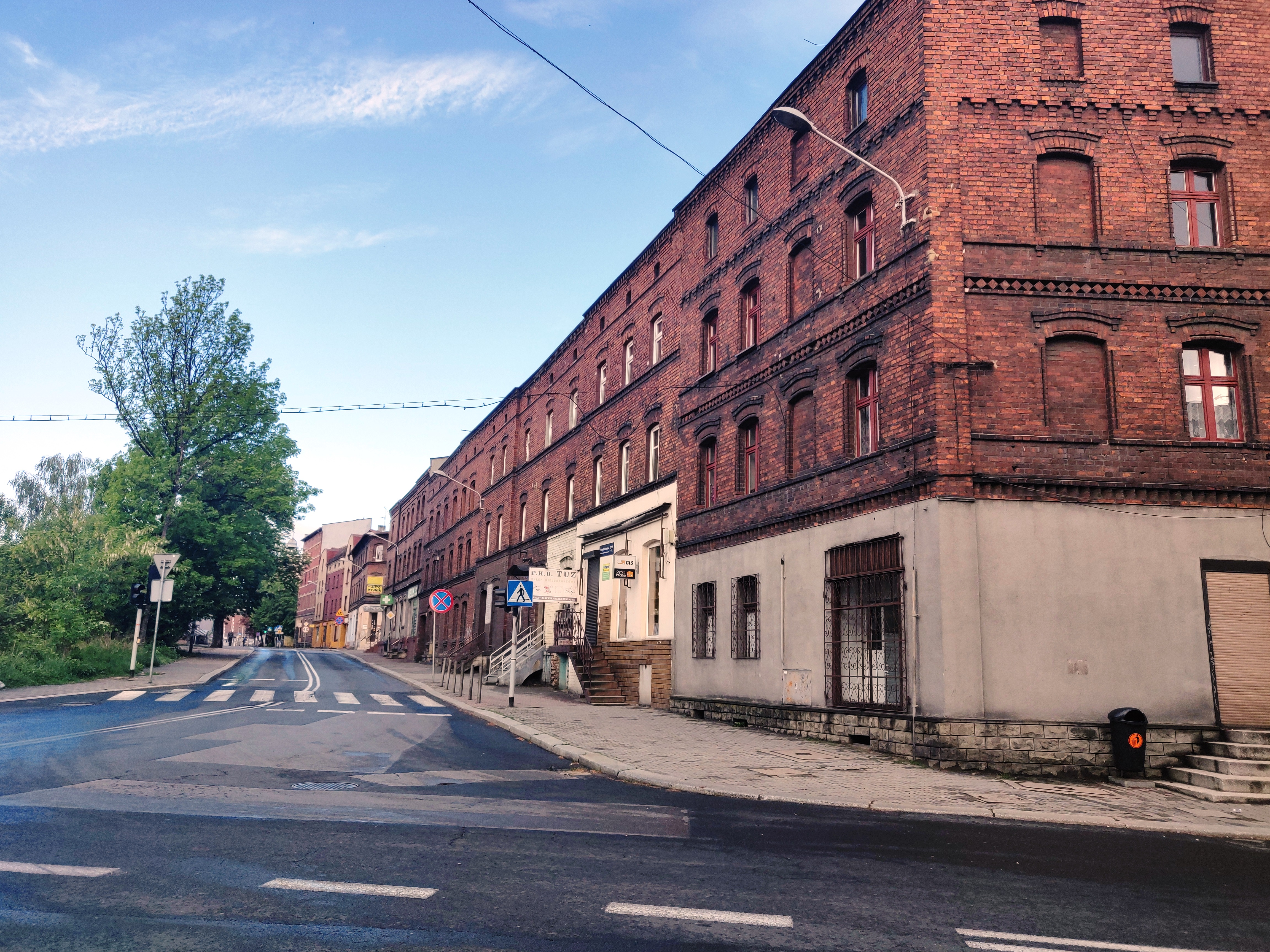 Katowice - Le Ronda St.